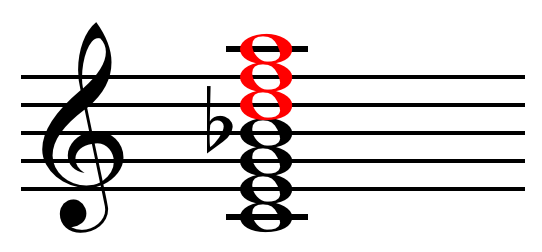 Upper structure Dm (in red), on top of lower structure C7 (in black), creating dominant thirteenth chord: C E G B♭ D F A.